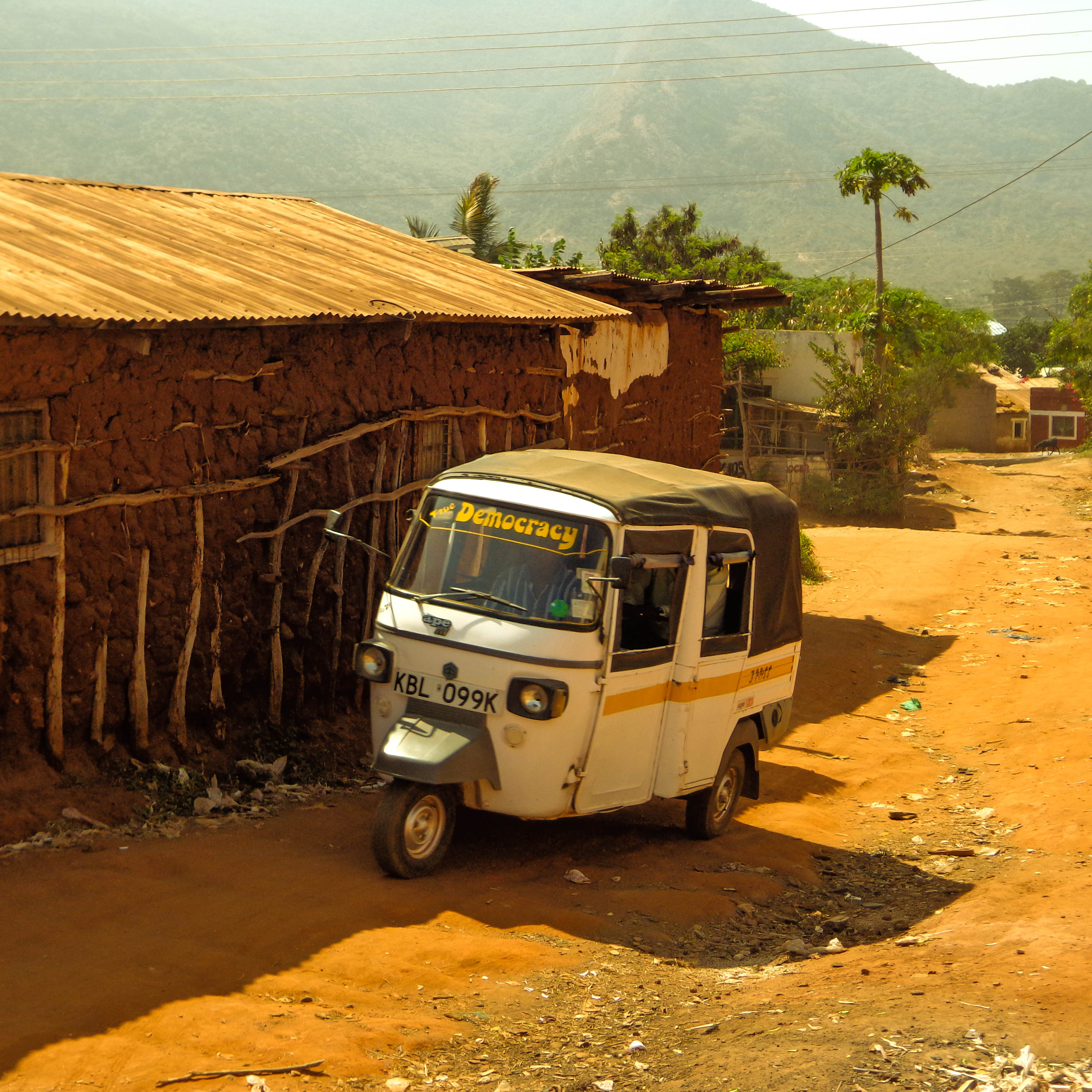 A Tuktuk [Auto Rickshaw] maneuvering the earth roads of Voi, Kenya. They are one of the main transport modes in Southern Kenya. This is an image with the theme "Africa on the Move or Transport" from: Kenya